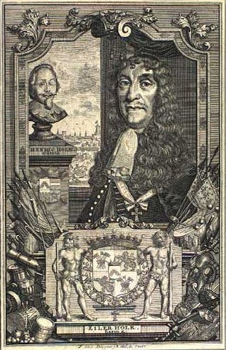 Eiler Holck (1627-1696), Danish general and byron, owner of Holckenhavn Castle